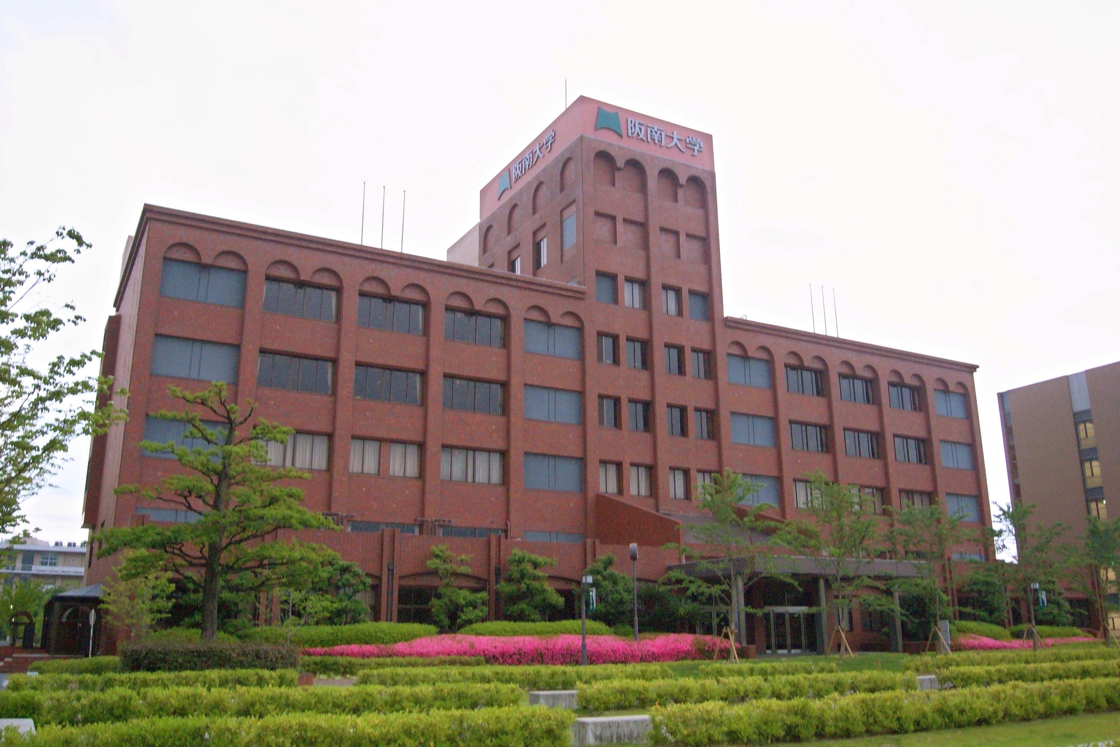 Hannan University in Matsubara-shi, Osaka pref., Japan.